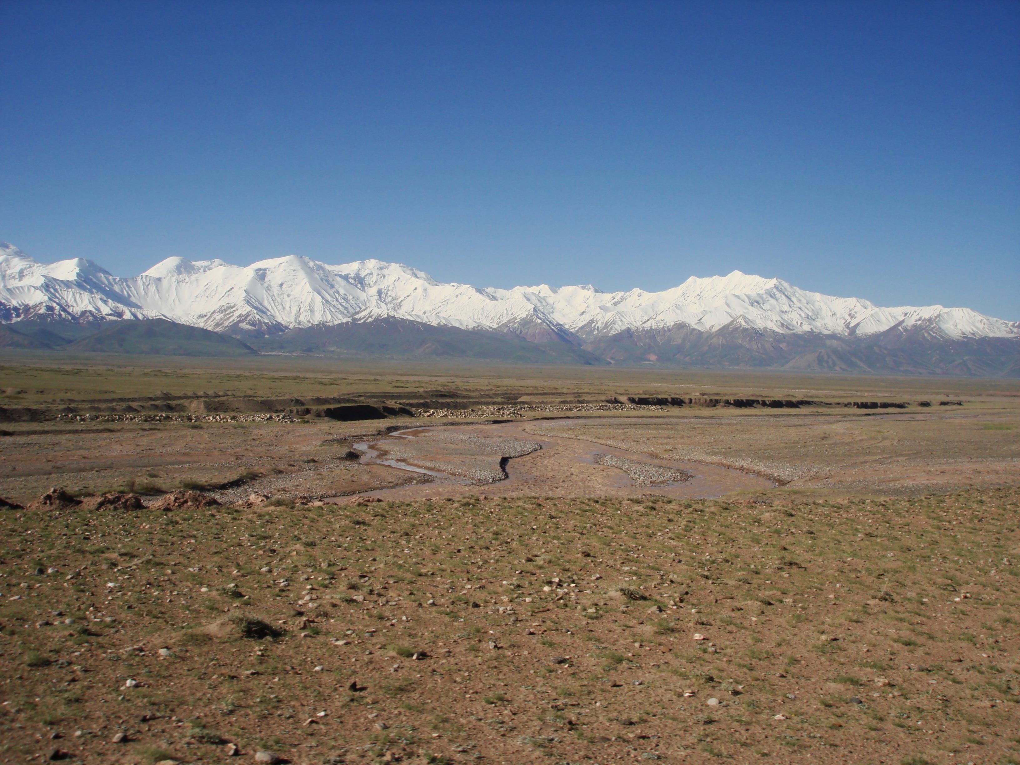 Alay Valley, Trans-Alay Ridge, Kyzyl-Suu (west) River